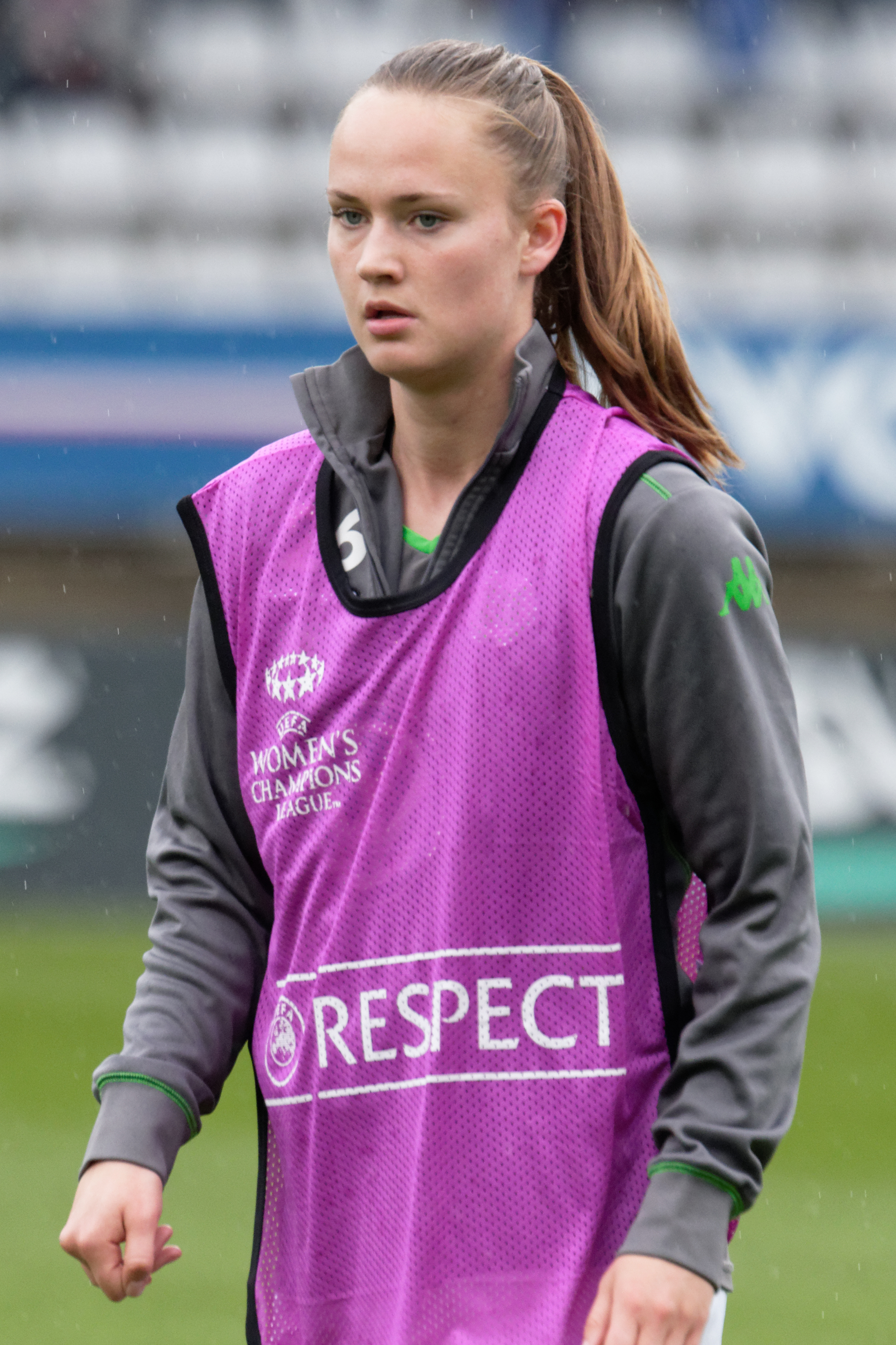 UEFA Women's Champions League, PSG - Wolfsburg, 26 April 2015.